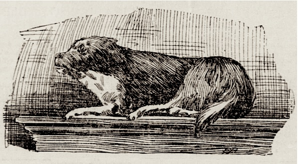 Sketch of a stuffed and mounted Bummer.